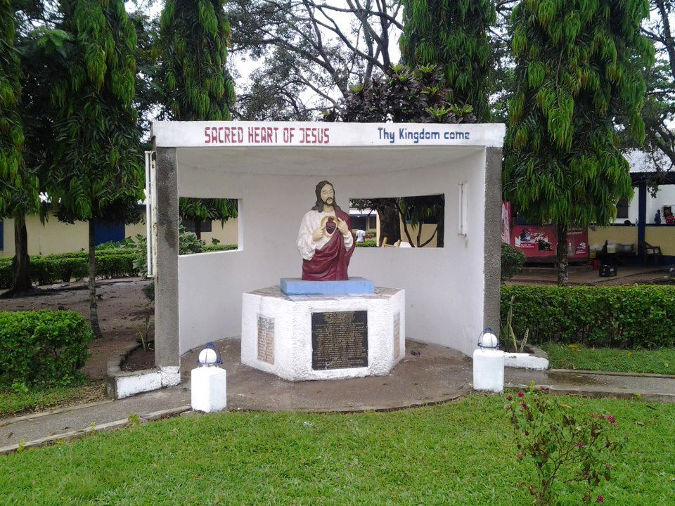 STATUE